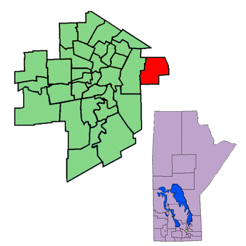 The 1999-2011 boundaries for the Transcona electoral district highlighted in red